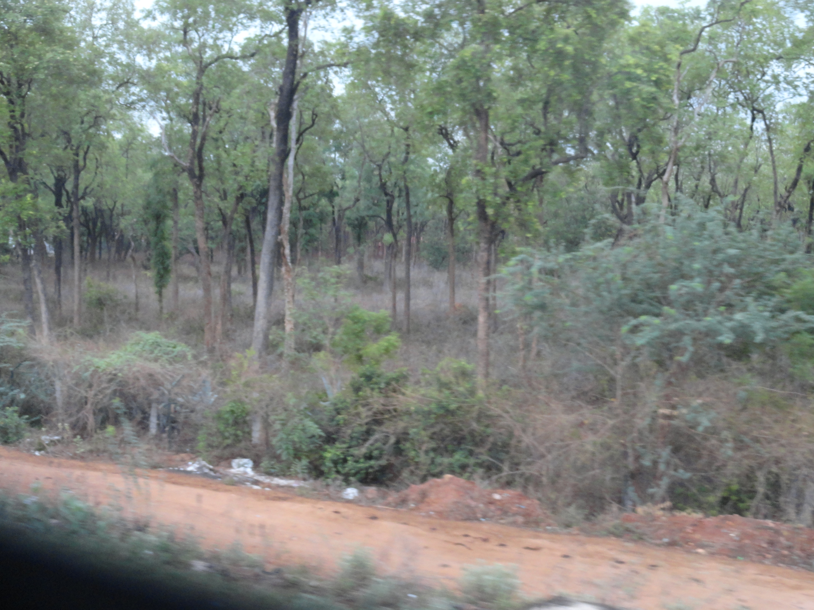 ఎర్రచందనం చెట్లు